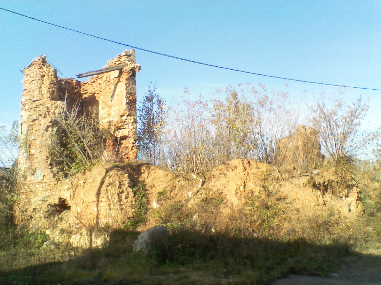 Беларуская (тарашкевіца): Замчышча. г. Барысаў This is a photo of Belarusian heritage monument. Reference number: 613В000001 ( WLM)